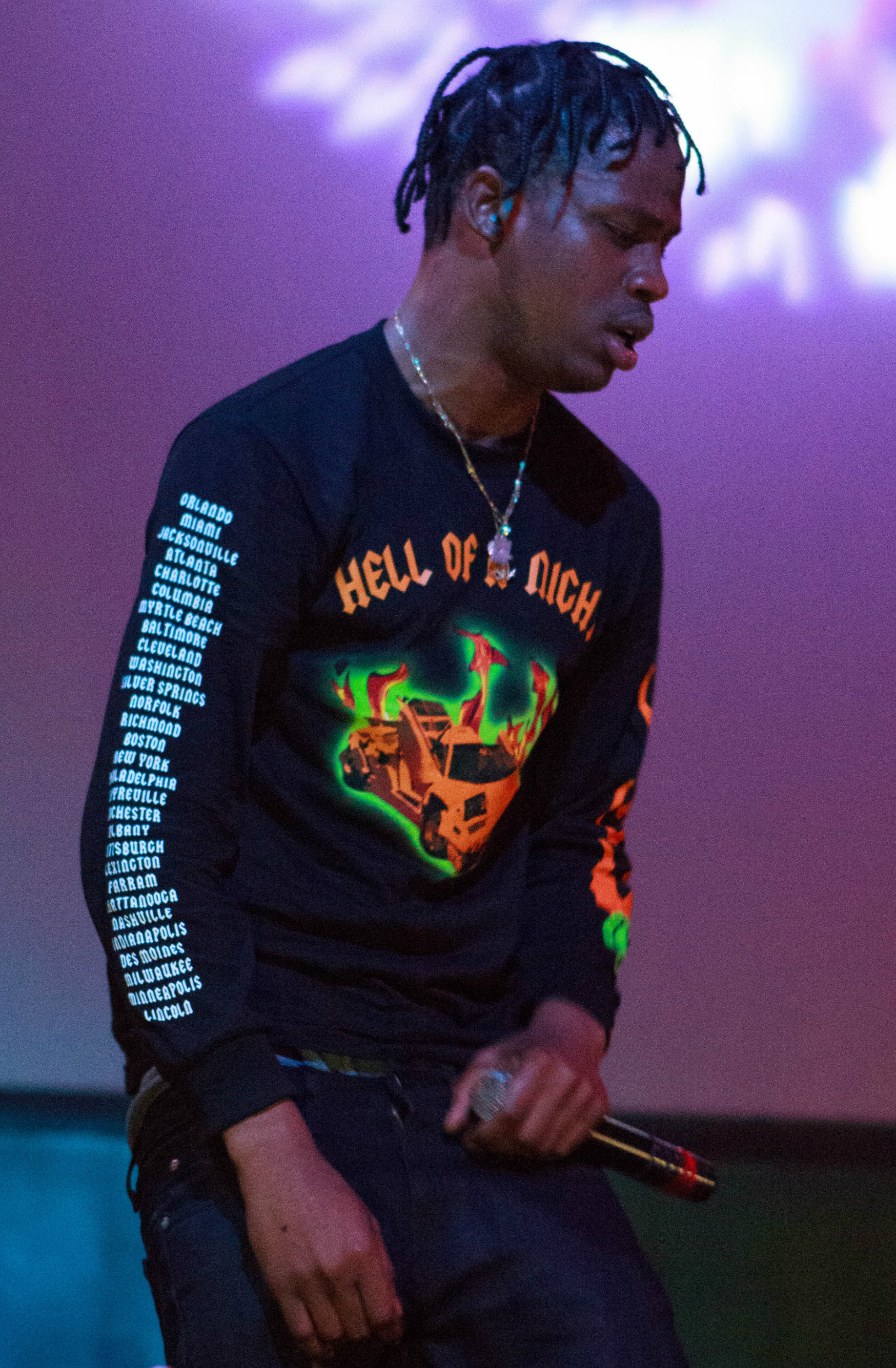 Travis Scott in 2014